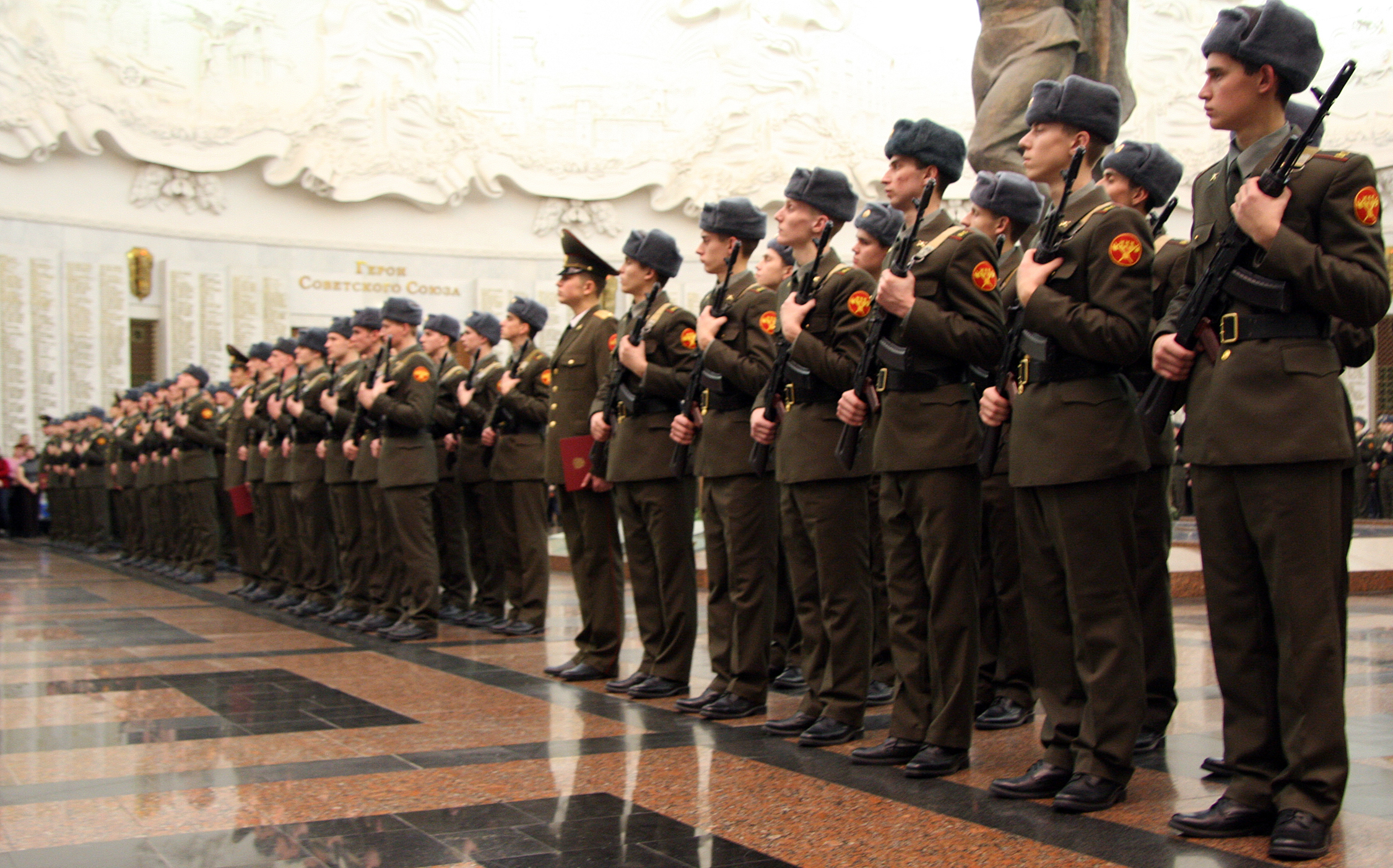 Military oath-taking ceremony for the 154th Independent Commandant's Regiment of the Russian Armed Forces